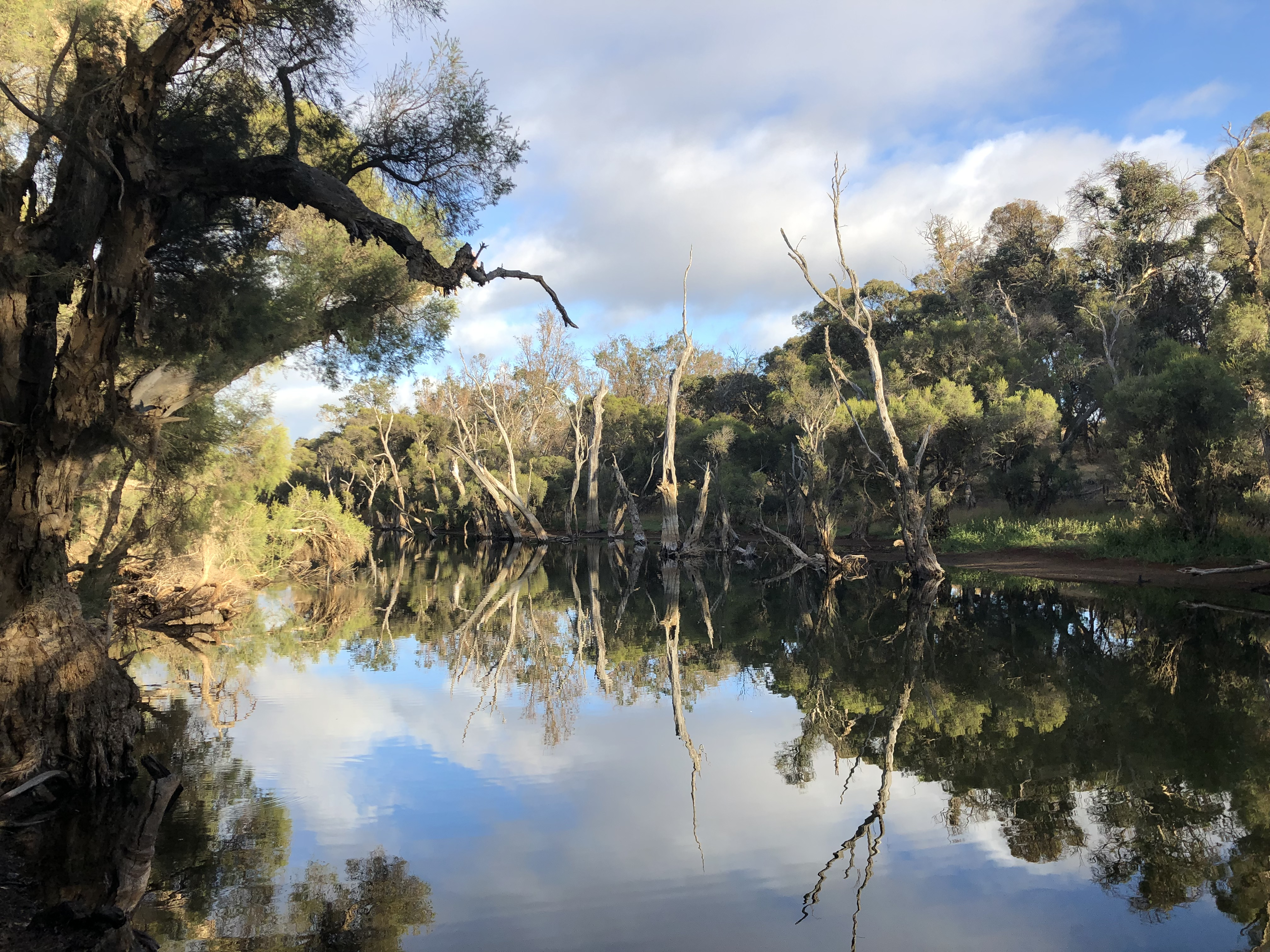 River walk